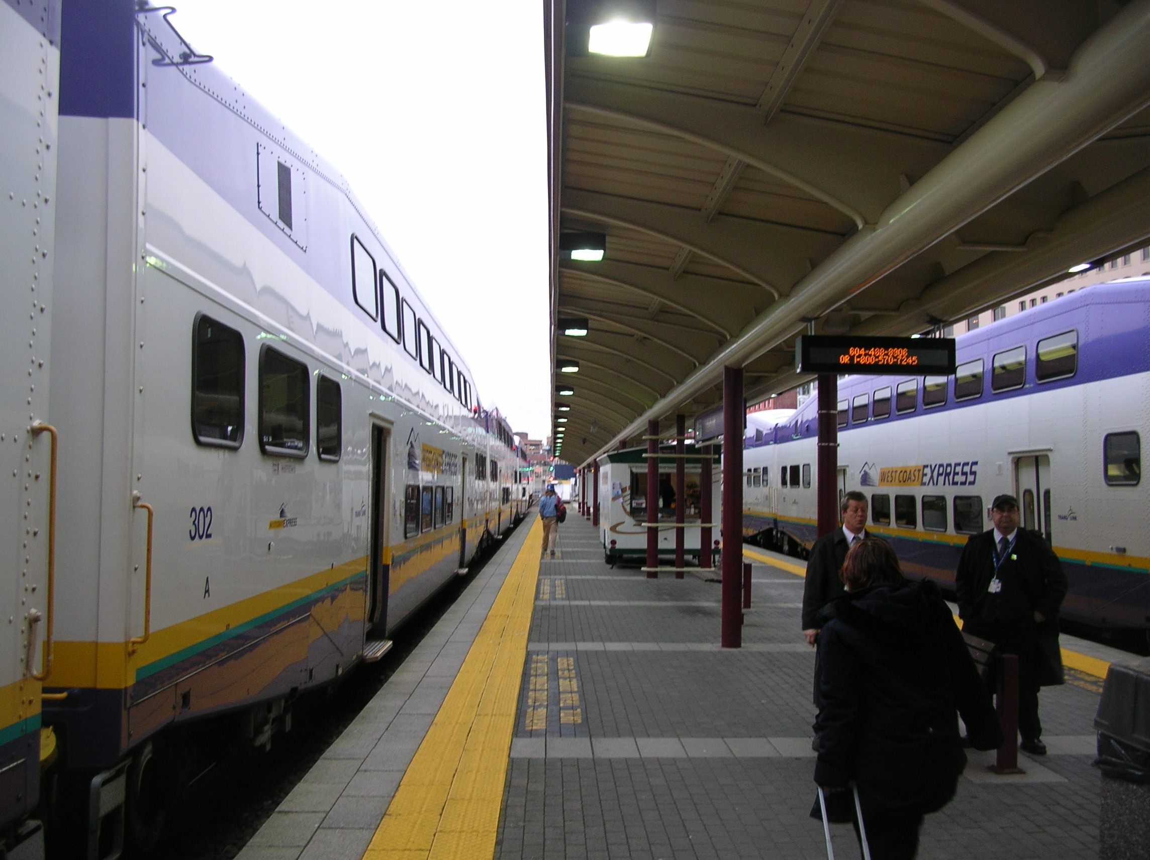 West Coast Express platform at Waterfront Station, Vancouver.